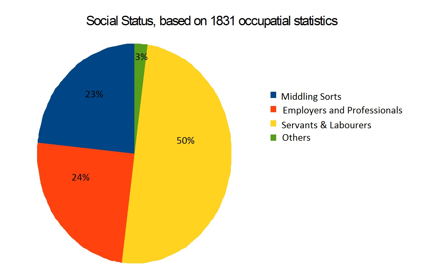 Social Status, based on 1831 occupational statistics in Gilcrux